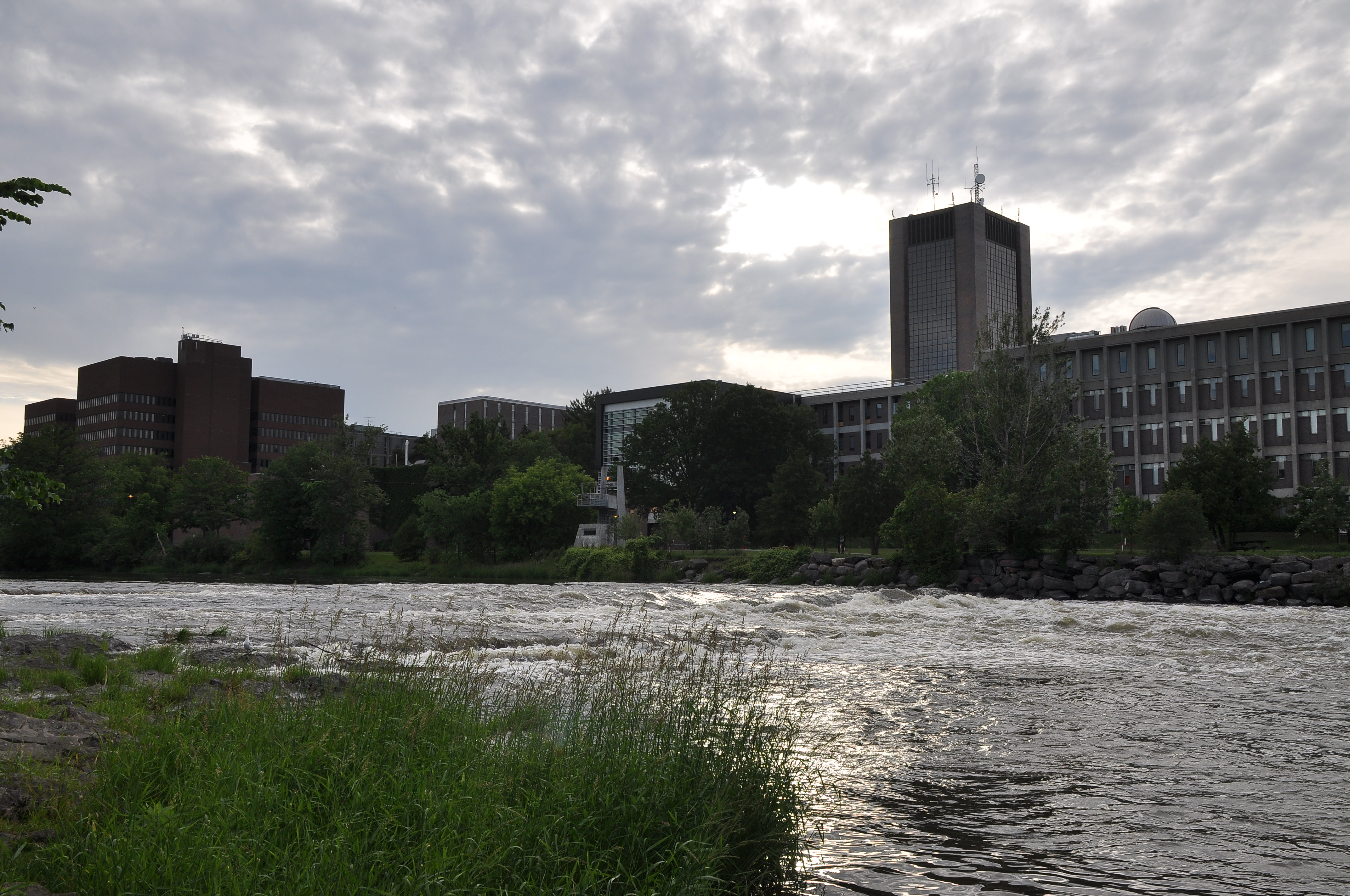 Another view of the sprawling campus of Carleton University, Ottawa, Canada. Carleton currently houses more than 22,000 undergraduate and more than 3,000 postgraduate students. Its campus is located west of Old Ottawa South, within close proximity to The Glebe and Confederation Heights, and is bounded to the north by the Rideau Canal and Dow's Lake and to the south by the Rideau River. I returned to Ottawa later in Nov. 2015 to attend my son's graduation, where I had the opportunity to view the univ up close and from the inside. It was quite an impressive set up! (Ottawa, Canada, June 2015)